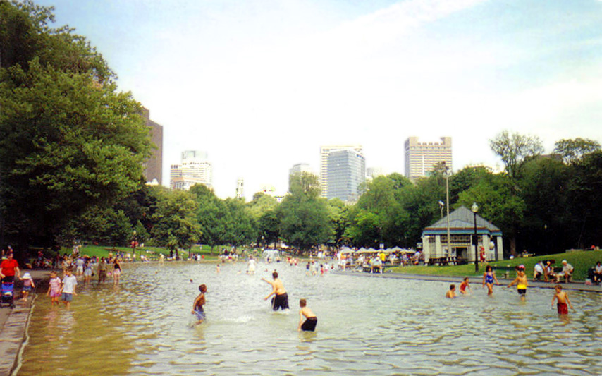 The Frog Pond in Boston Common, Boston, Massachusetts. For more information, see the article Boston Common on the English Wikipedia.